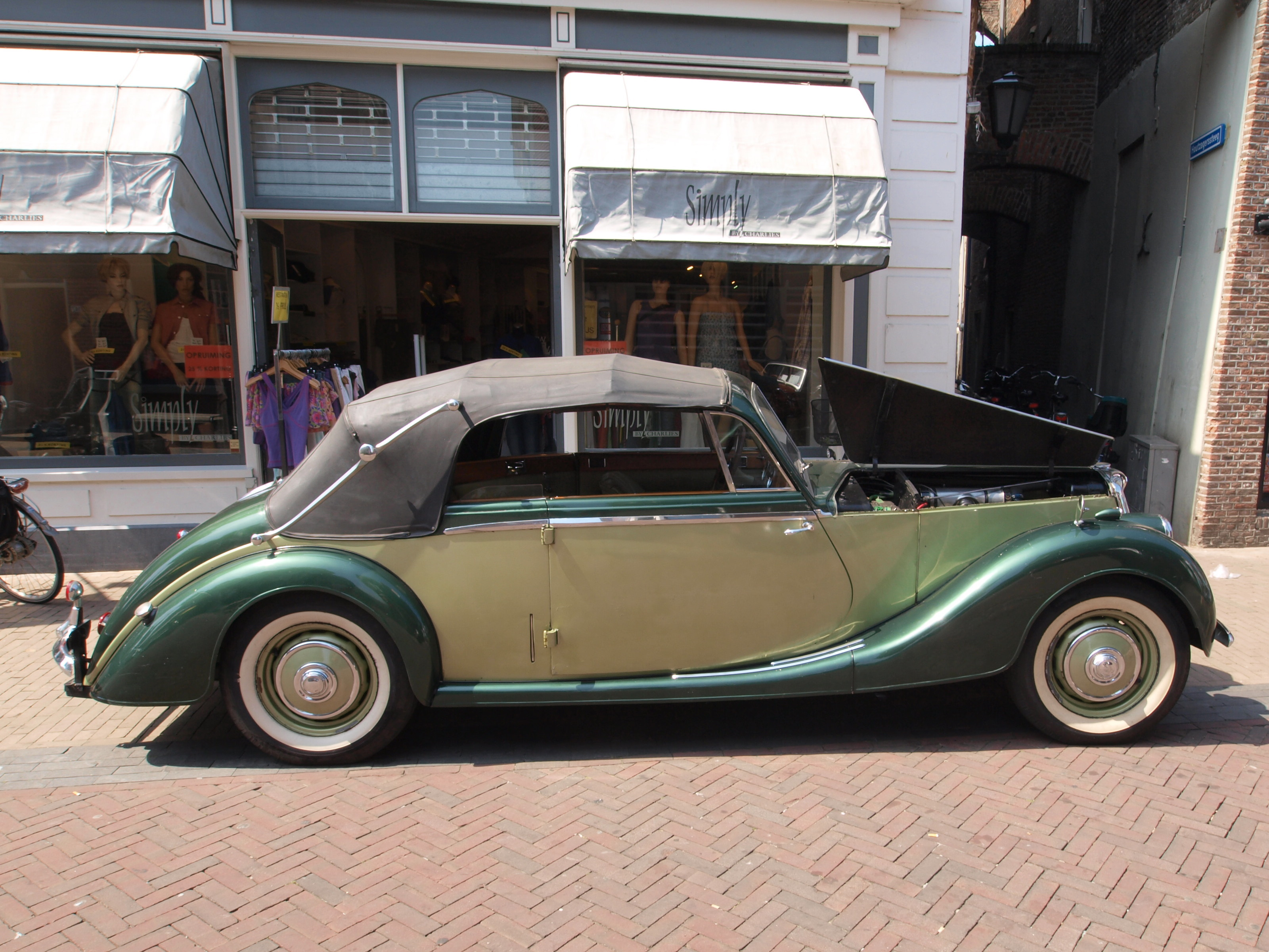 Photographed at Kampen, The Netherlands.